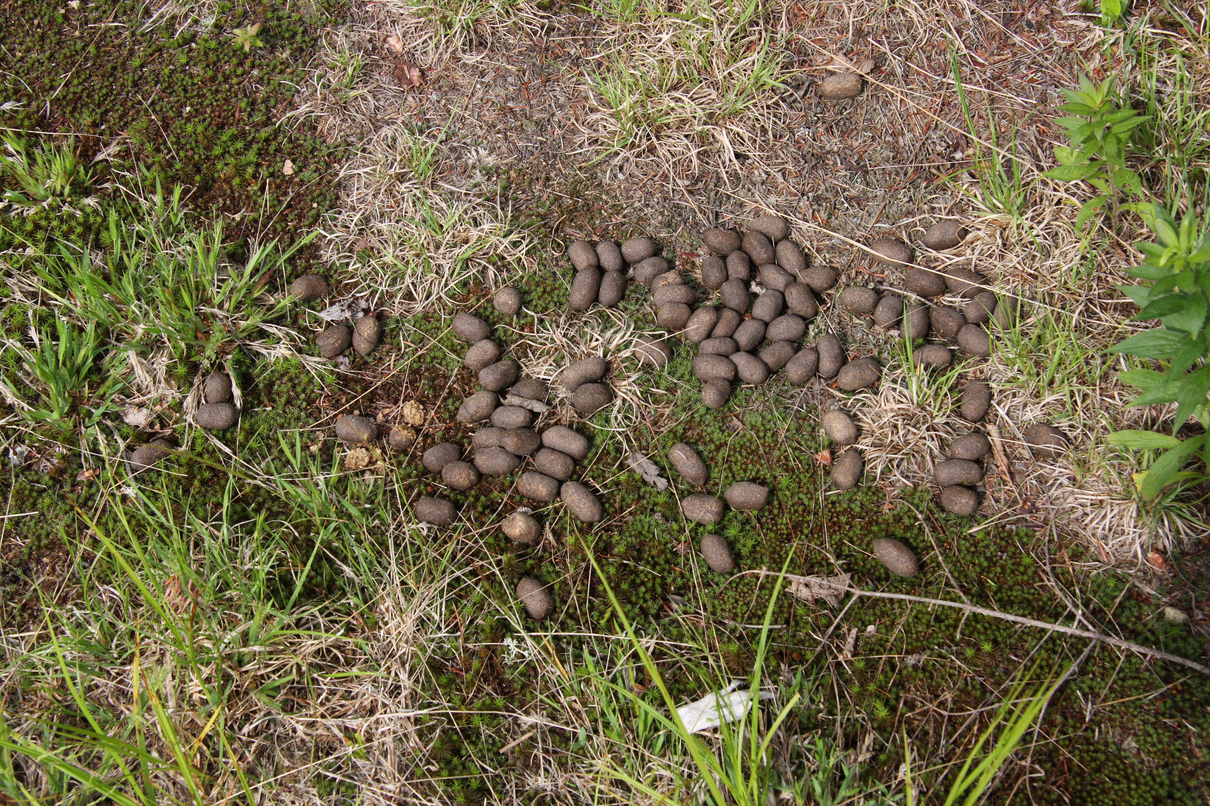 Moose dropping, Jacques-Cartier National Park, Quebec, Canada